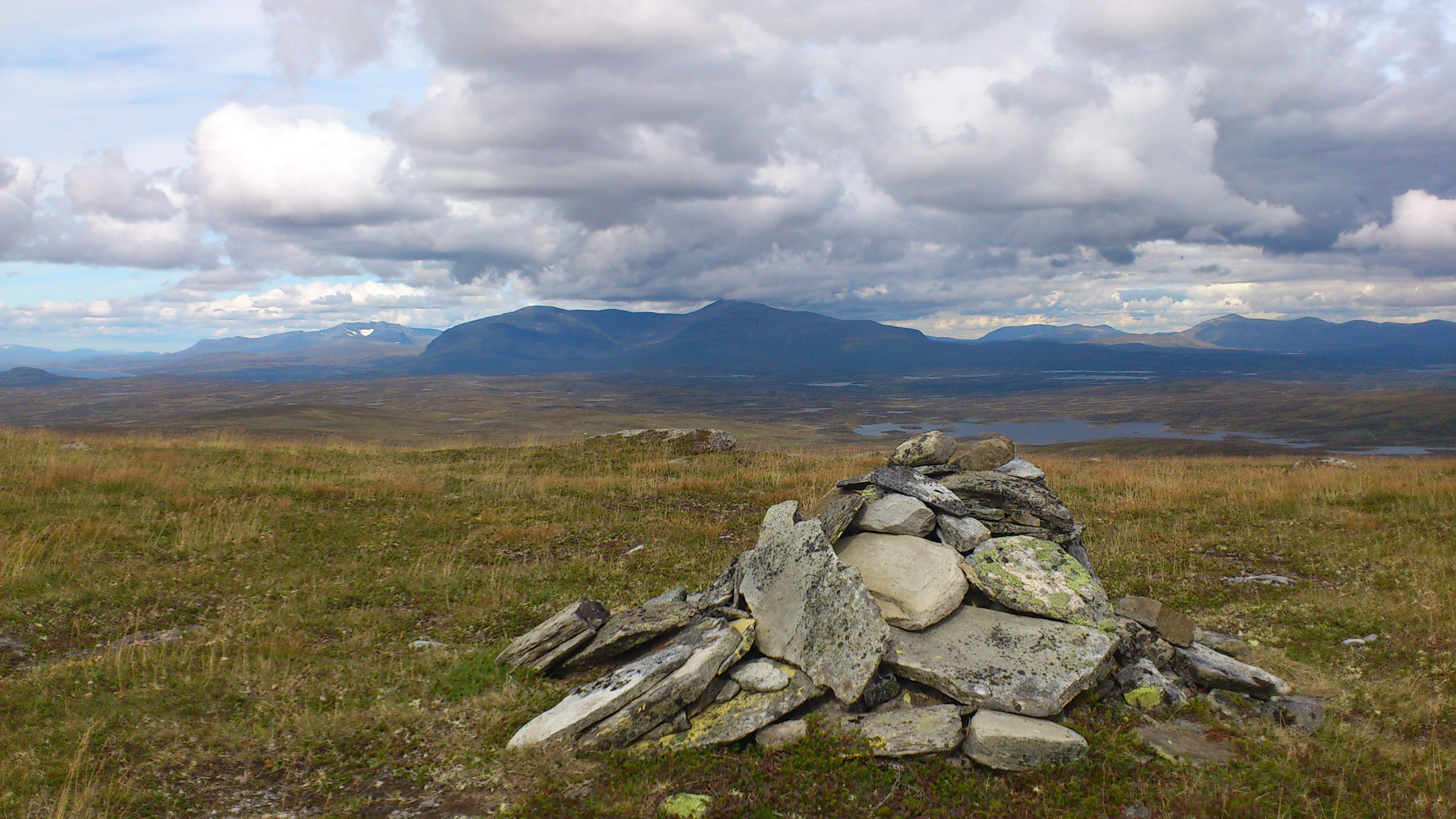 View from the top of the mountain Stor-Axhögen, with the mountain Helags in the background